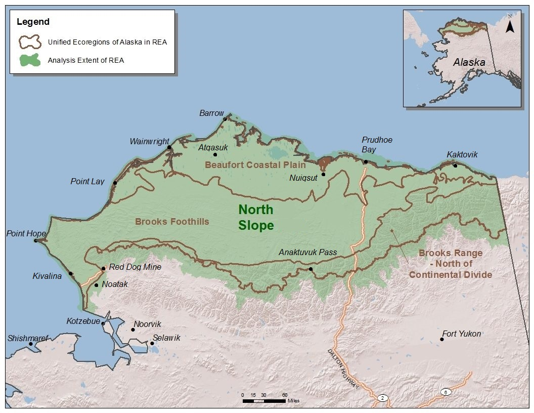 Map of Alaska North Slope Ecoregions